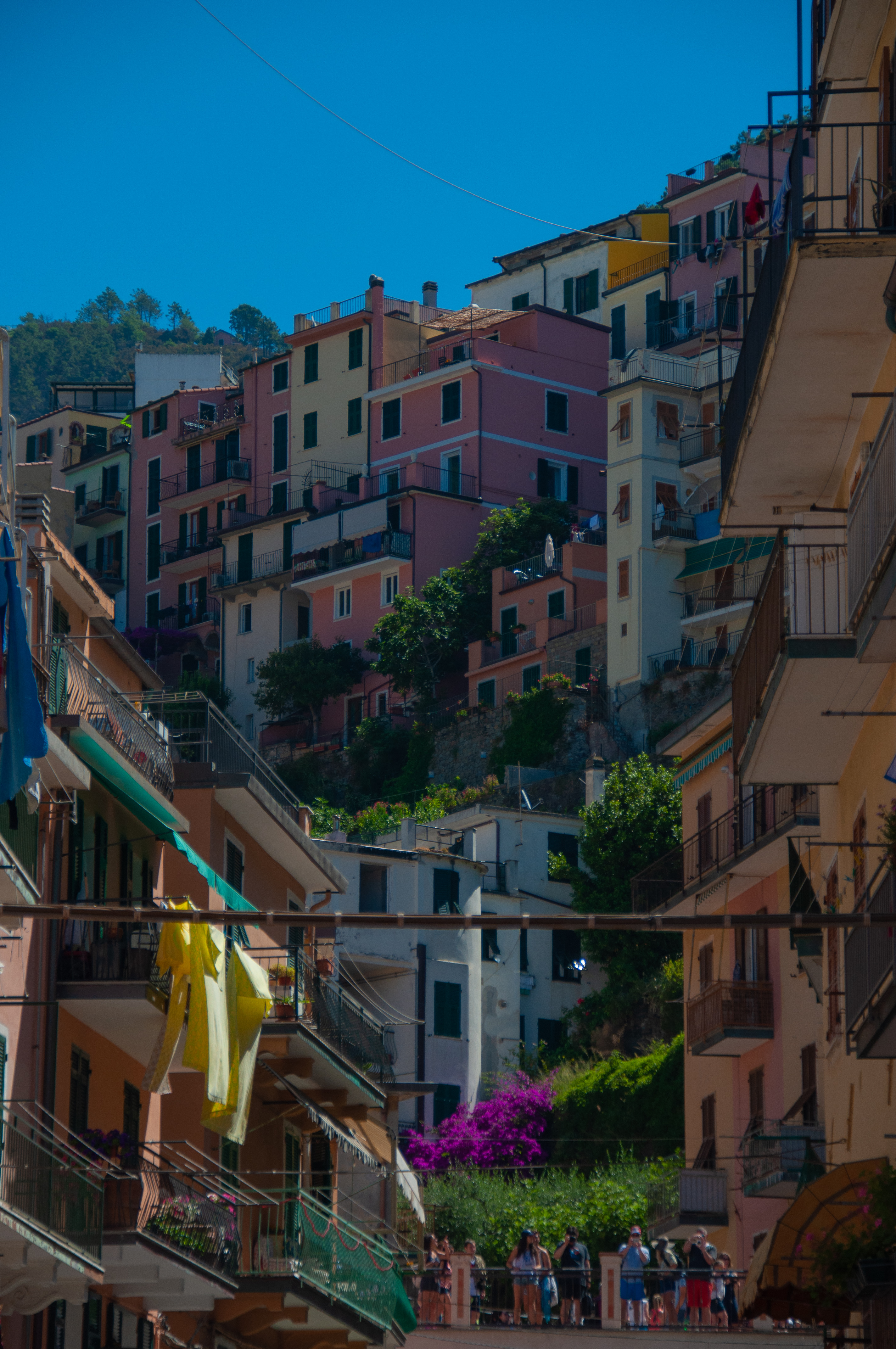 Colourful houses seen from the main road in the town of Manarola, Cinque Terre, Italy